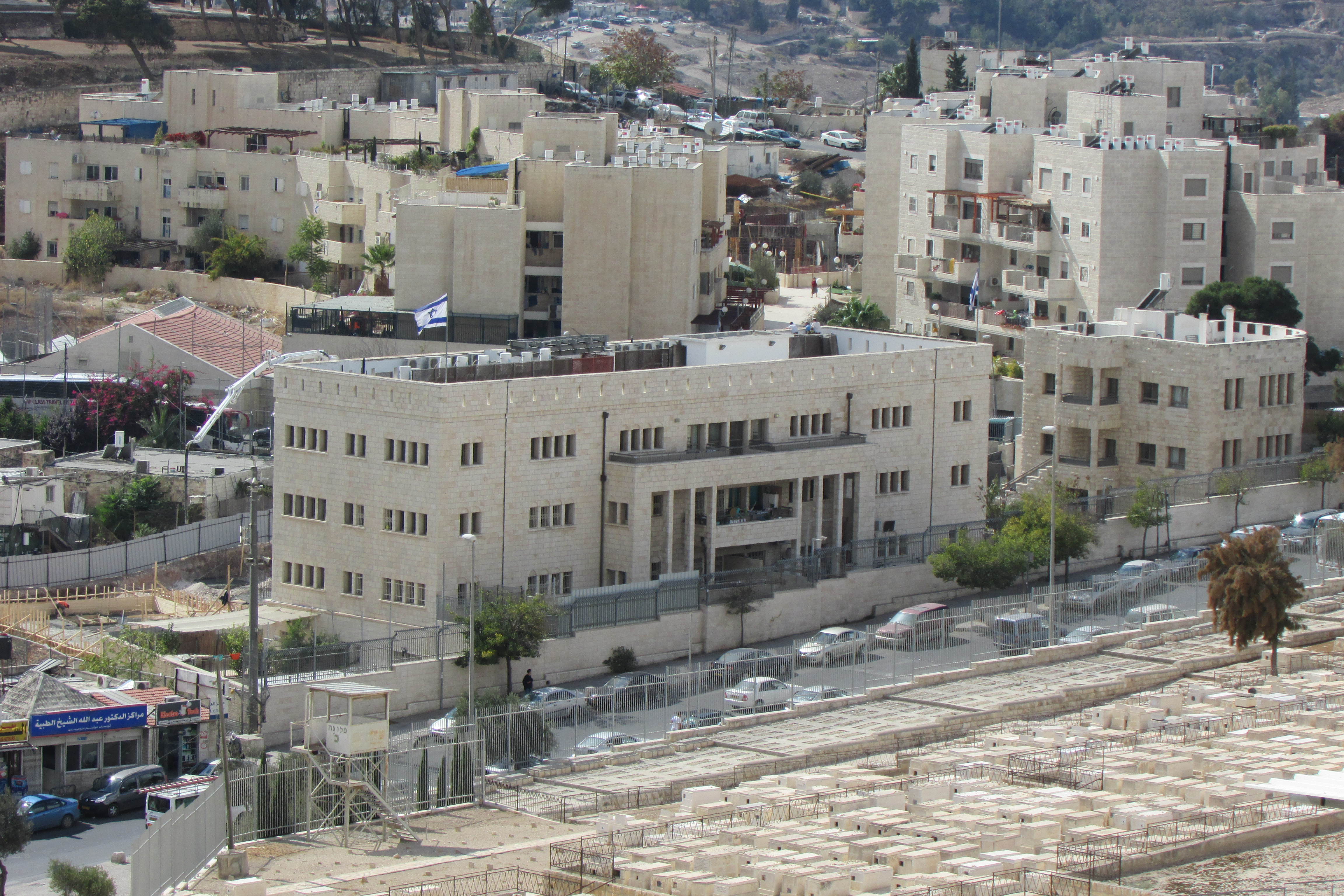 Ma'ale ha-Zeitim In front is Maale David